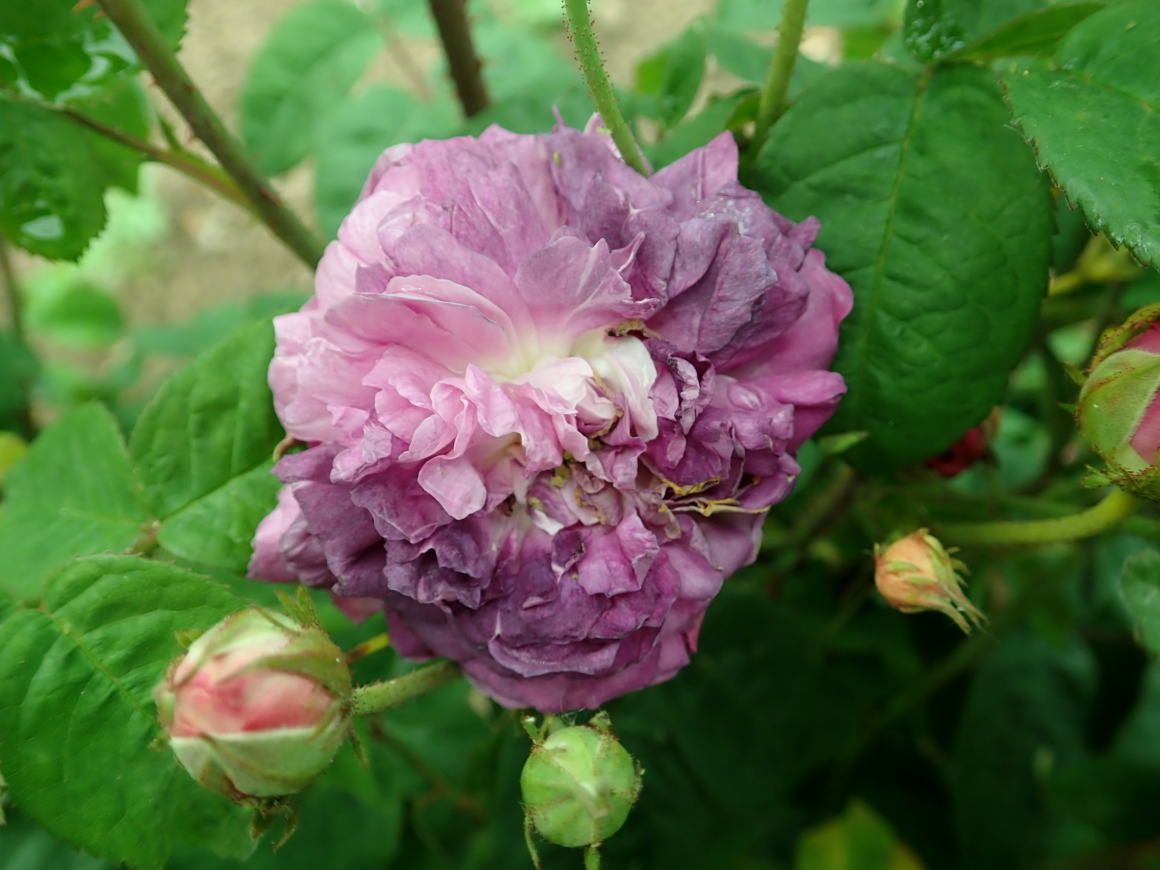 Rosa ‘Böhmova Azurová’ (J. Böhm, 1934), Europa-Rosarium Sangerhausen.